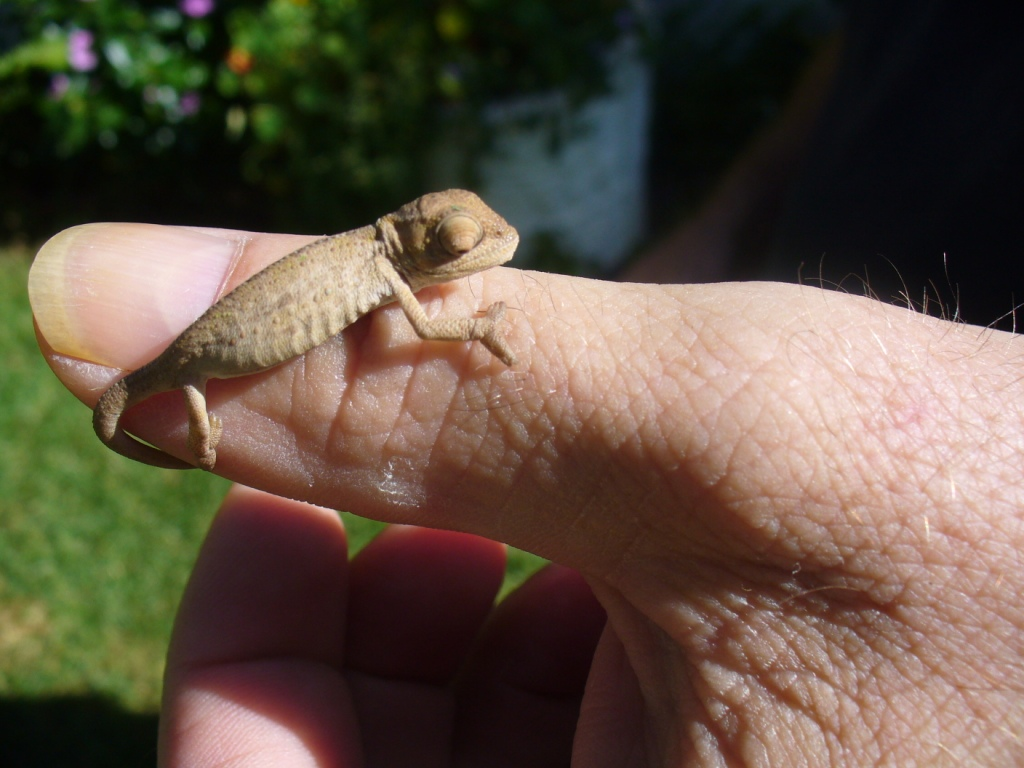 Juvenile Cape Dwarf Chameleon (Bradypodion pumilum), Cape Town, South Africa.